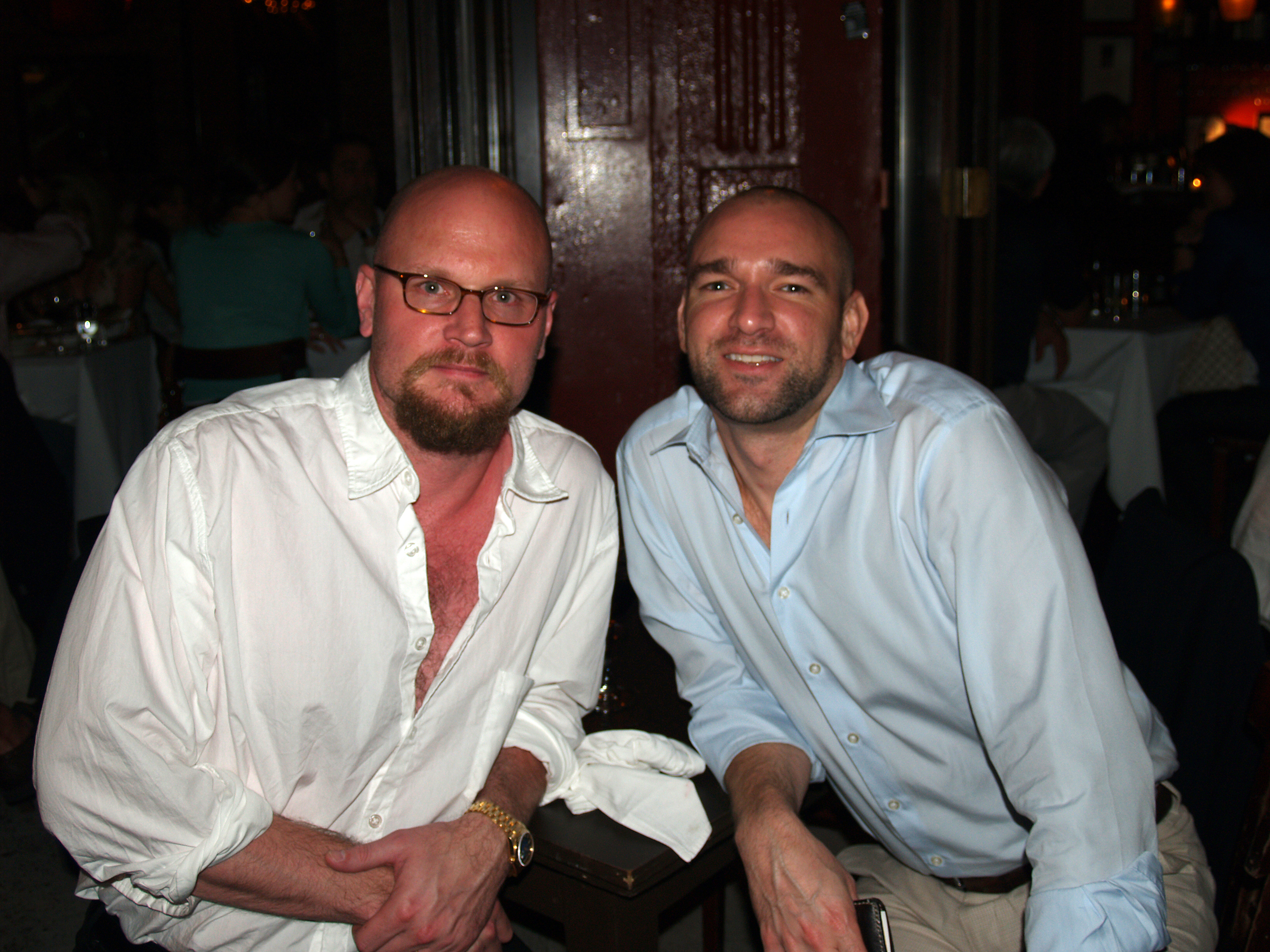 Augusten Burroughs and David Shankbone